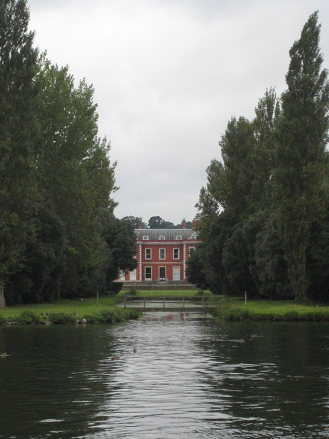 Fawley Court Since 1952 Fawley Court has belonged to the Polish Congregation of Marian Fathers. Some more information here